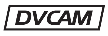 This is a compatibility logo for DVCAM video recording format